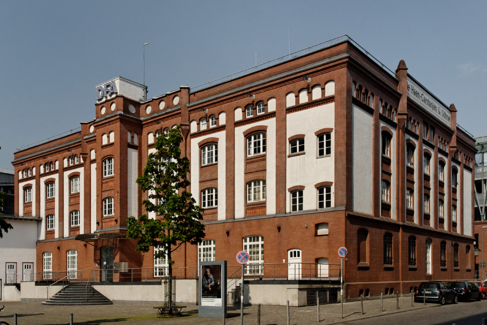 Building Kaistraße 3 in Düsseldorf-Hafen, Germany This is a photograph of an architectural monument.